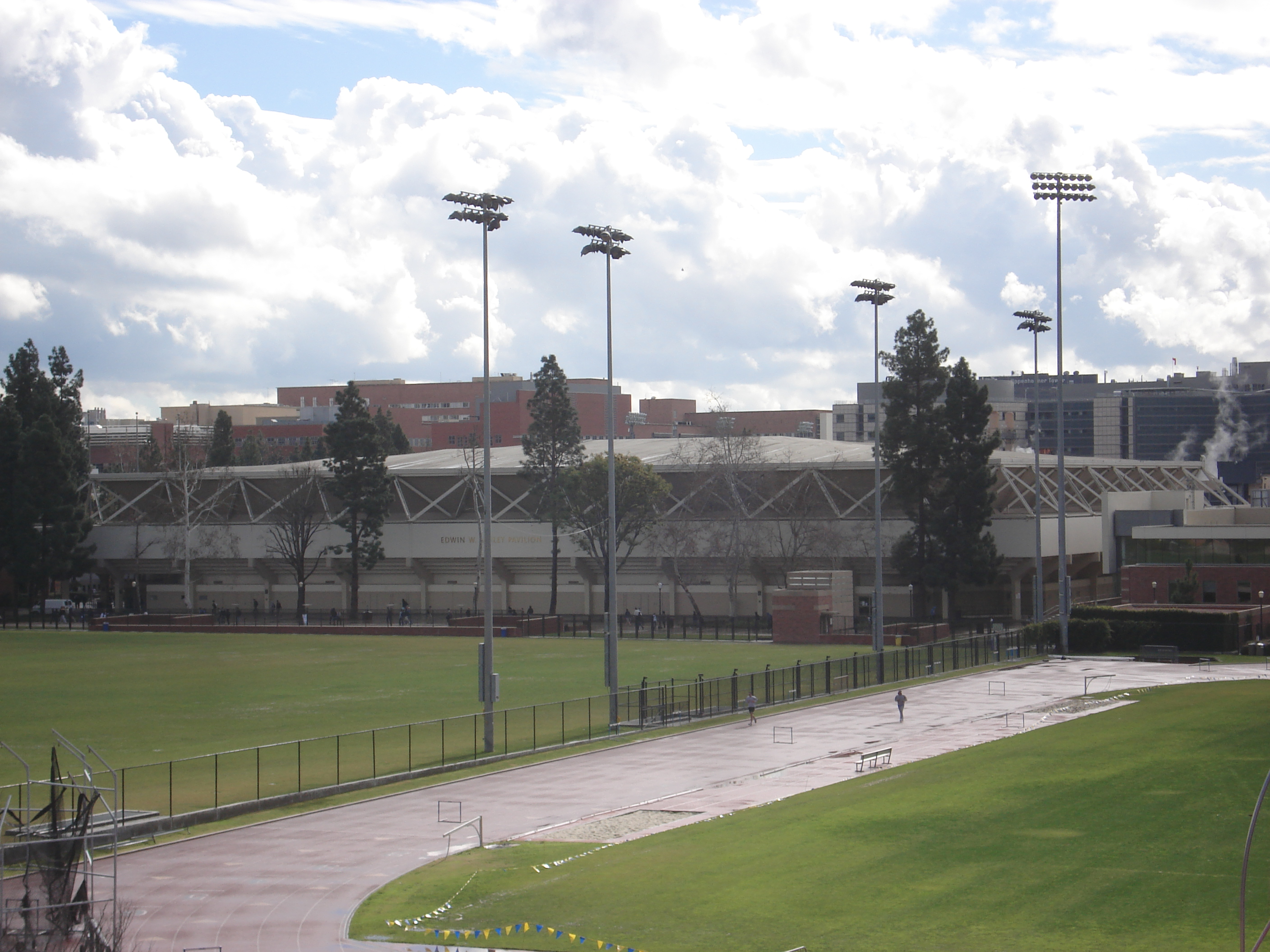 Exterior of Pauley Pavilion, the basketball stadium at UCLA